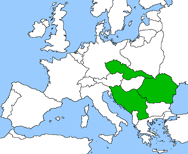 The Little Entente